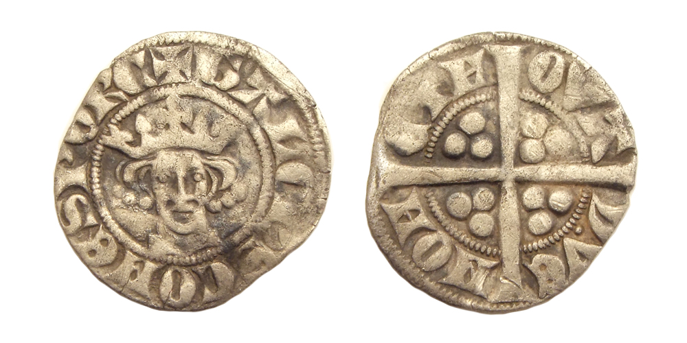 Gaucher of Chatillon, sterling, struck 1312-1322. Mint: Yves. Obverse: Crowned head facing. Reverse: Long cross pattee with three pellets in each angle. Legend: MON ETA OVA Y.VE